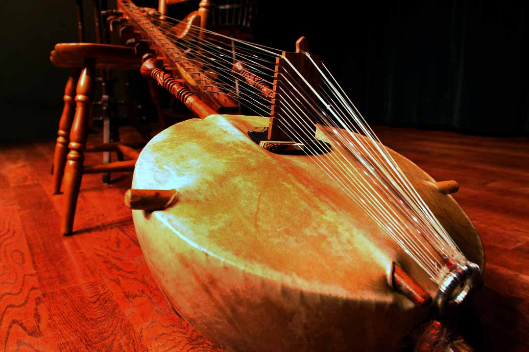 A kora; a harp-lute used by Mandingo peoples in West Africa.